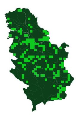 Rasprsotranjenje vrste u Srbiji (Alciphron)